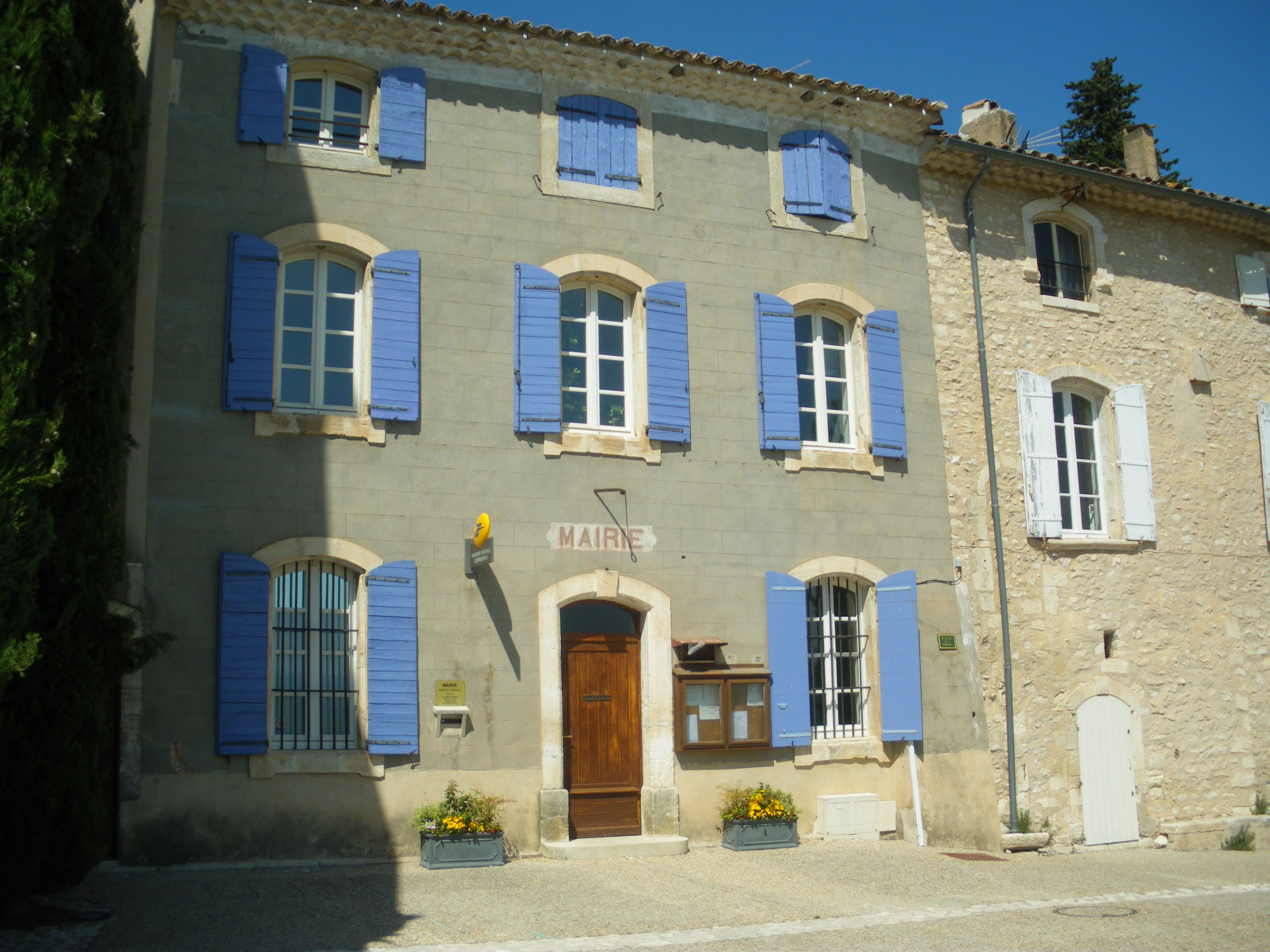 Town hall of Joucas, Vauclue